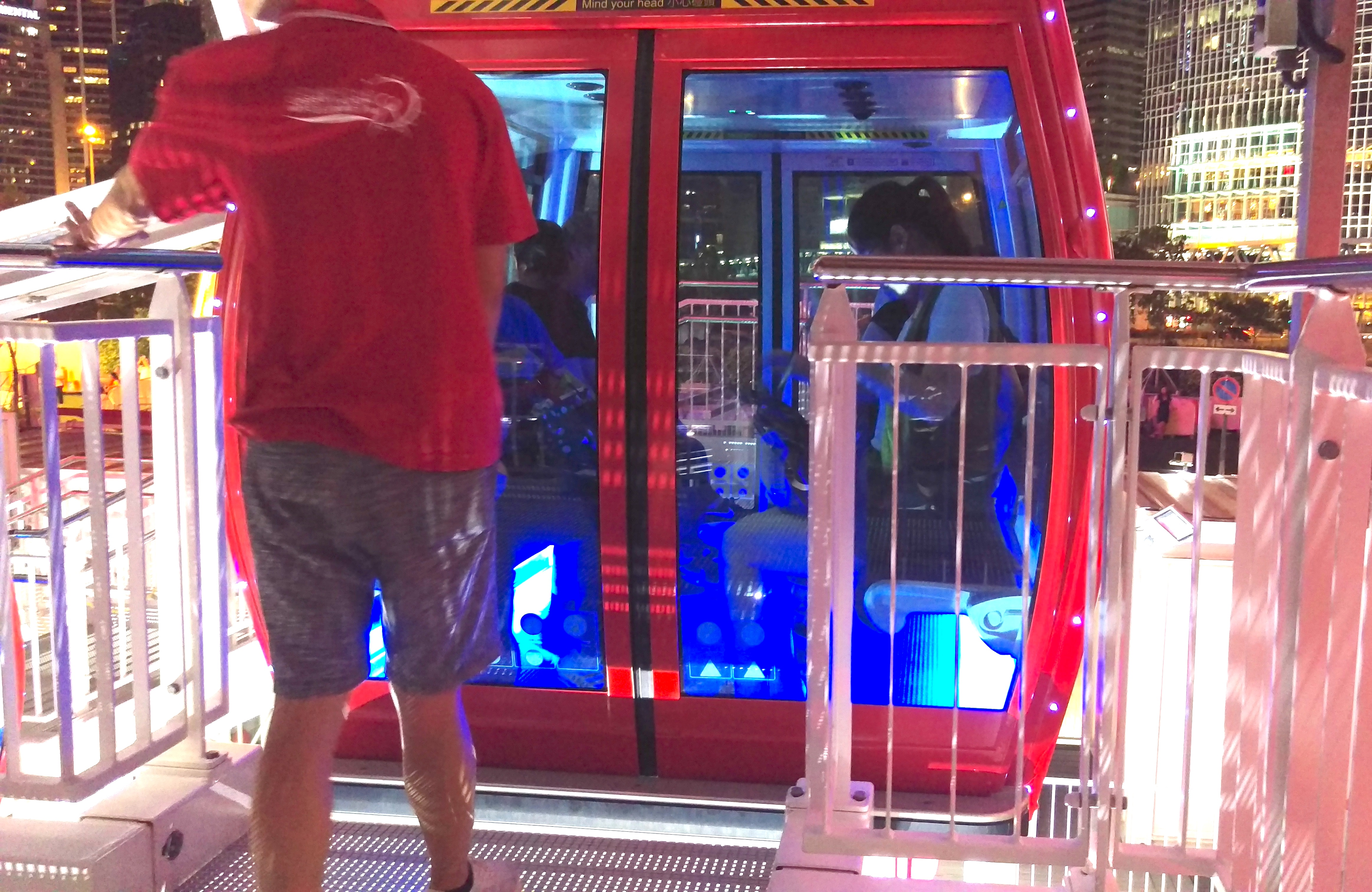 A close shot of the gondola of the Hong Kong Observation Wheel in July 2018, with the back of the staff and guests inside.